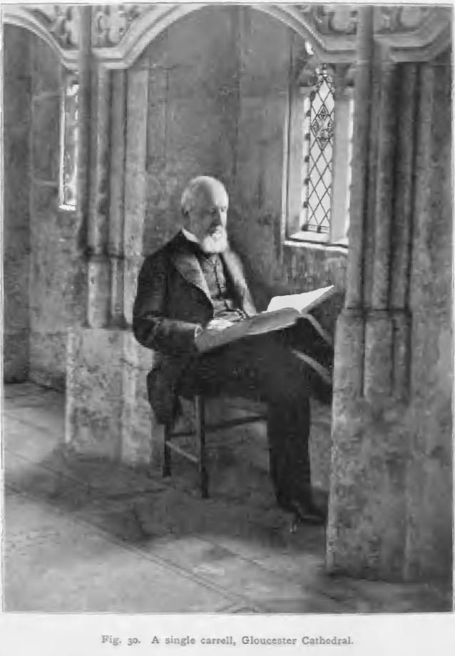 From The care of books by John Willis Clark, 1901. The 'carrel' could be used for writing, in medieval times.